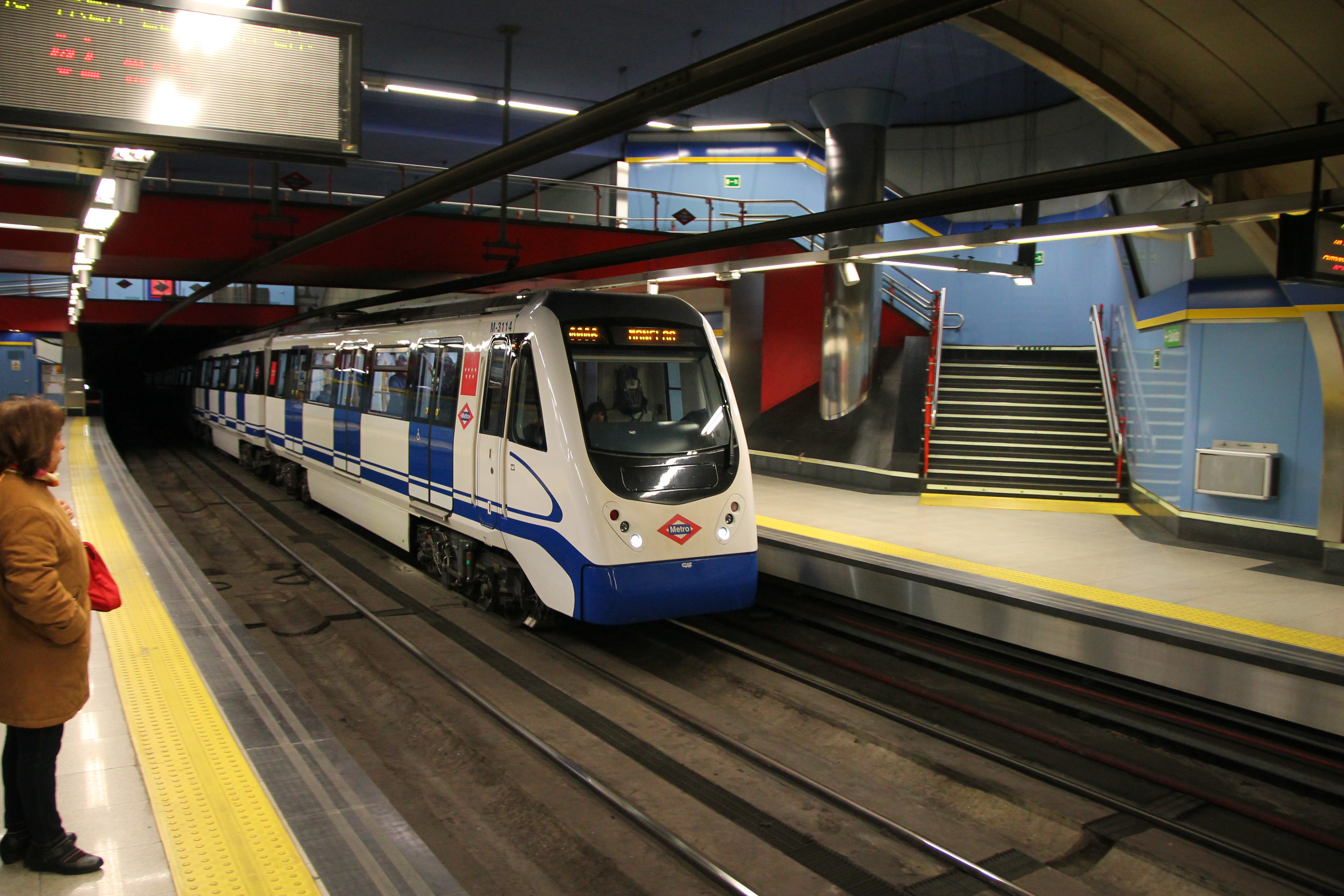 Train class 3000 in the station of Ventura Rodríguez, Madrid Metro